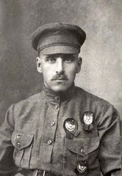 Foto of the later marshal of the Soviet Union Vasily Blücher as Commander of the 1. Rifle Corps, Petrograd.